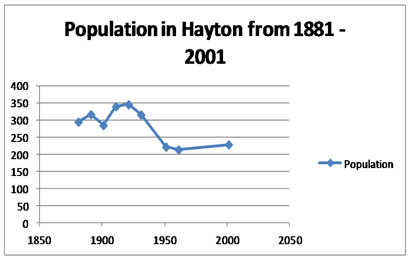 graph to show population i Hayton